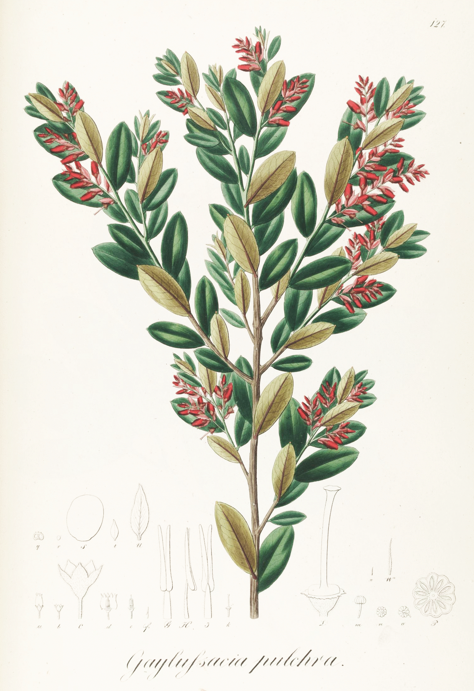 Plate from book